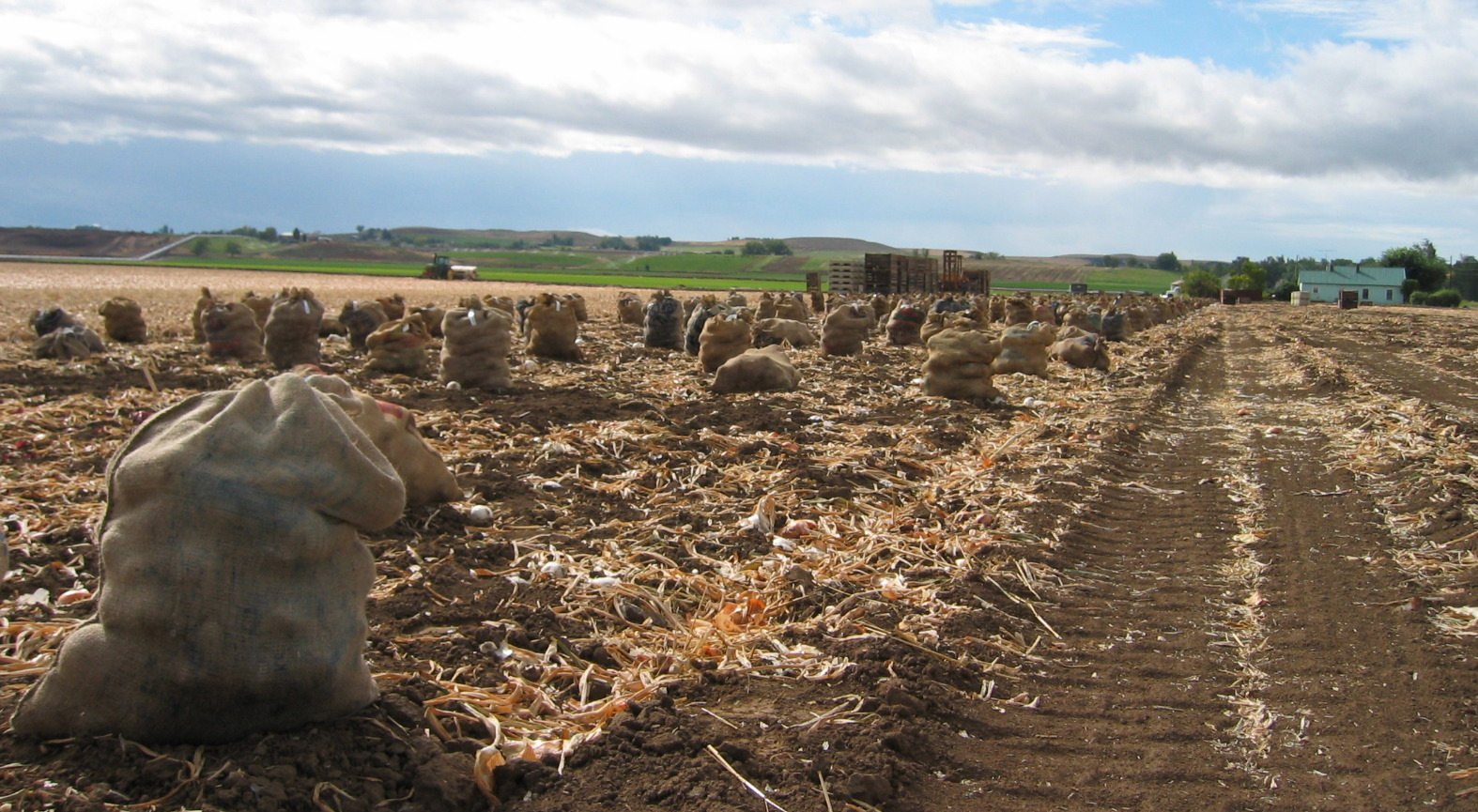 Onion fields in Vale, Oregon.